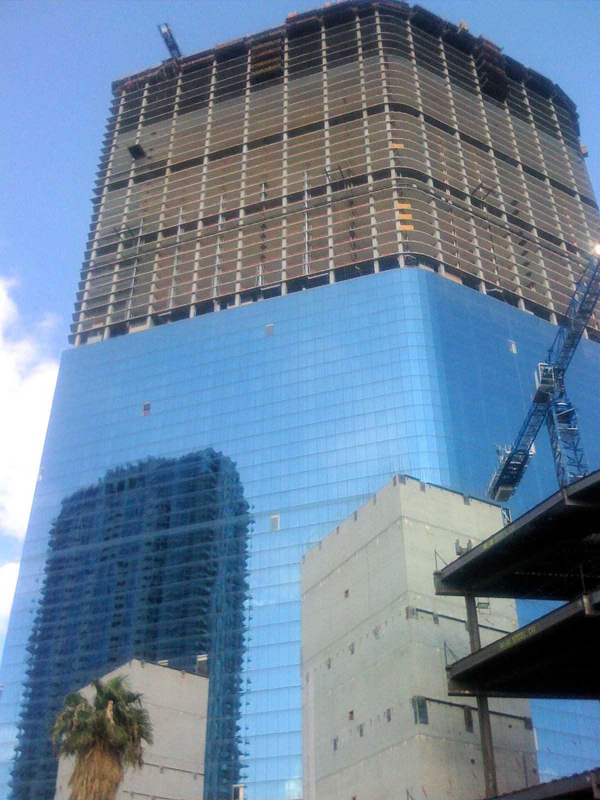 The construction site of the now inactive Fontainebleau Resort Las Vegas project — unfinished on the Las Vegas Strip, Nevada.